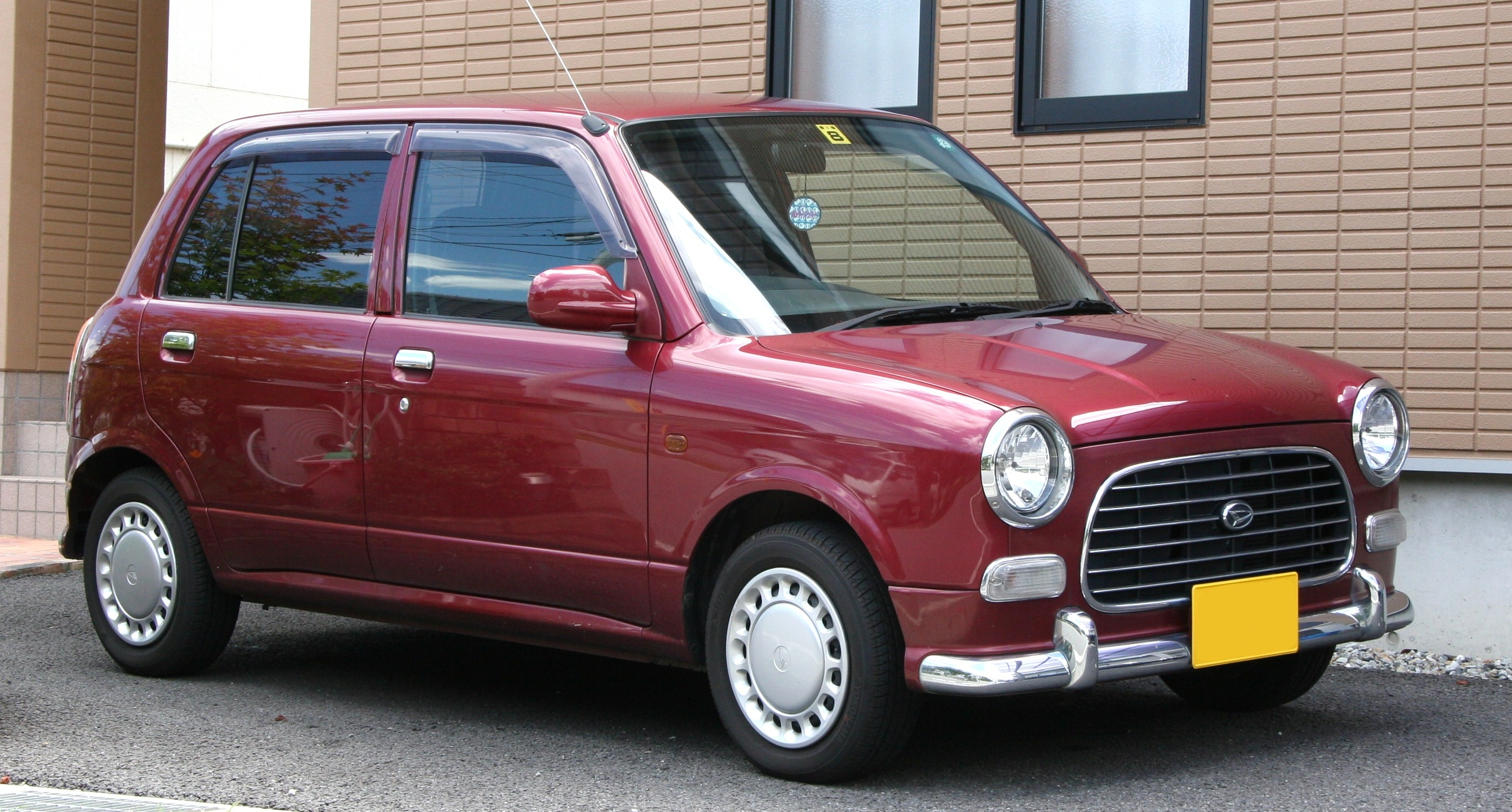 Daihatsu Mira Gino